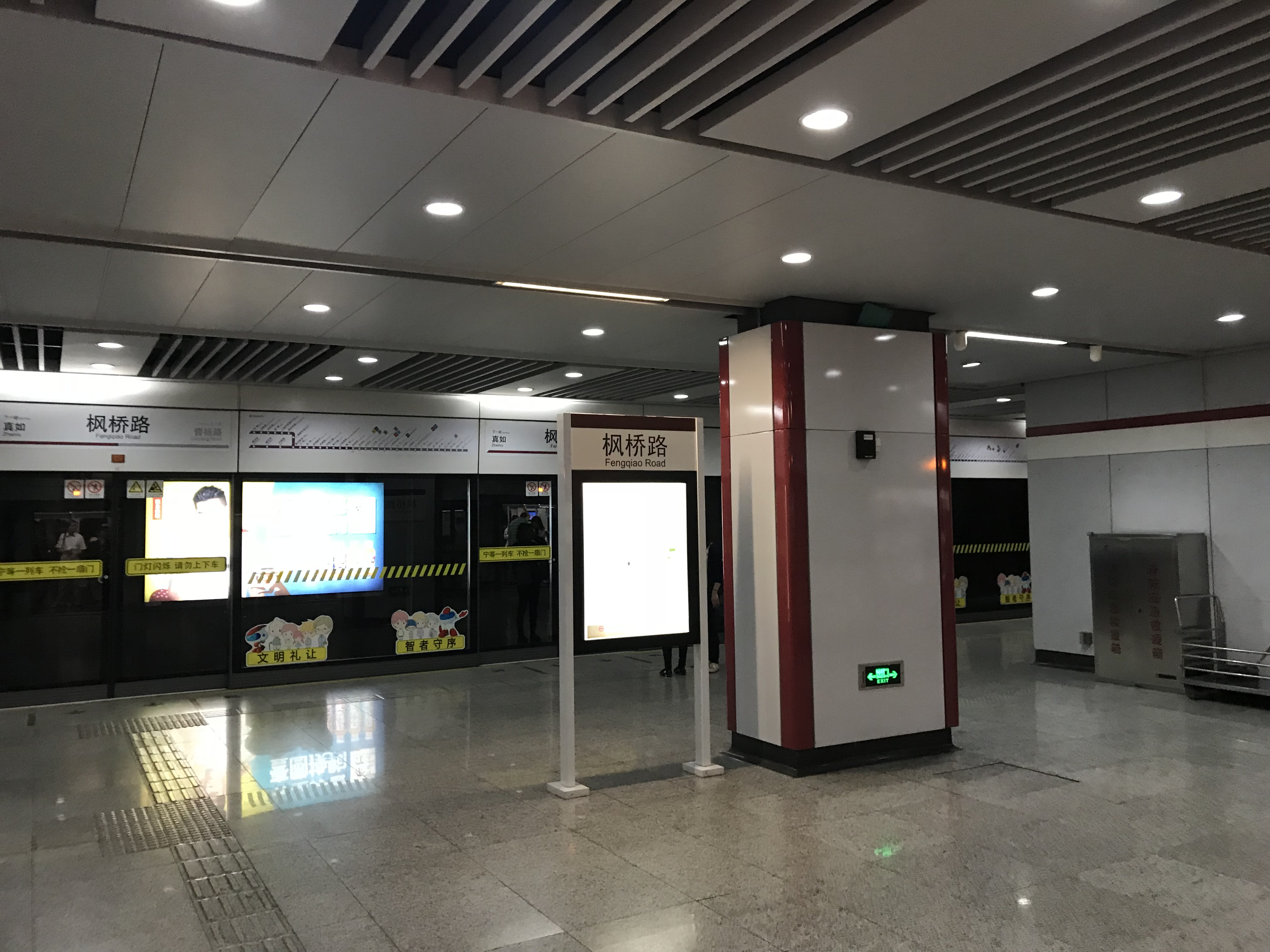 201805 Fengqiao Road Station